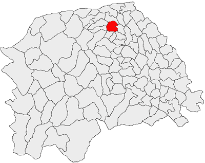 Location of Rădăuți city in Suceava county, Romania.